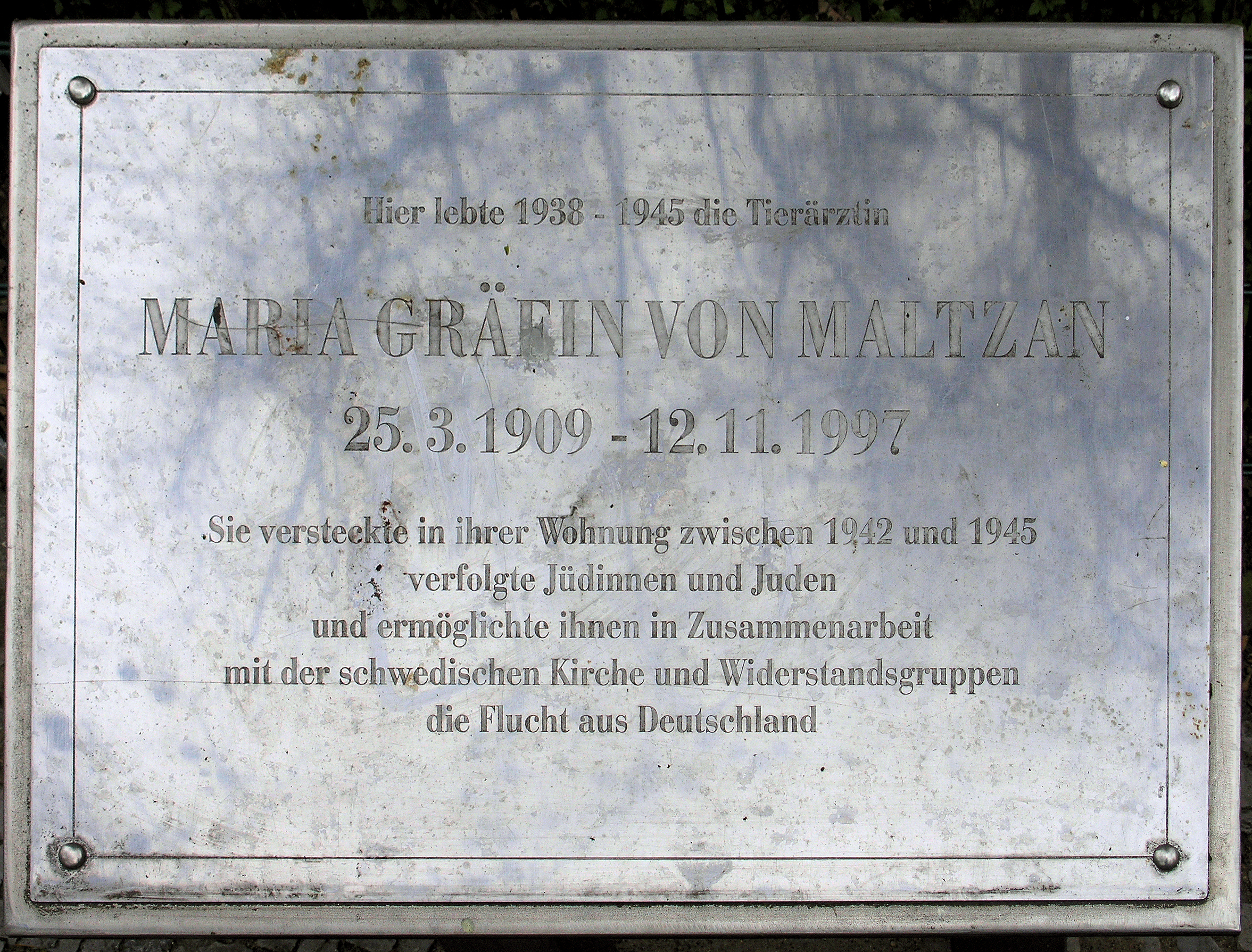 Memorial plaque,, Maria Gräfin von Maltzan, Detmolder Straße 11, Berlin-Wilmersdorf, Deutschland Koordinate:52°28′43.6″N 13°19′26.7″E / 52.478778°N 13.324083°E